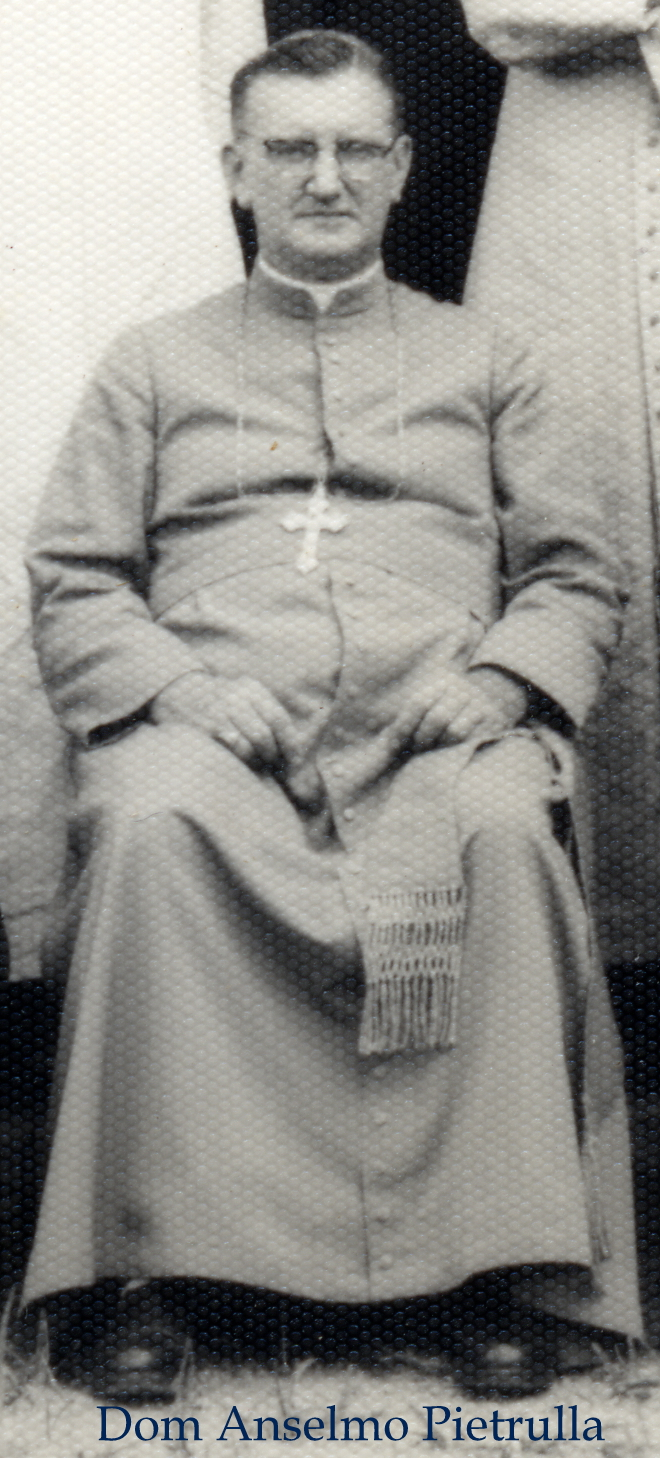 Picture of Dom Anselmo Pietrulla (1906-1992), bishop of Campina Grande, Paraíba, and later Tubarão, Santa Catarina, Brazil